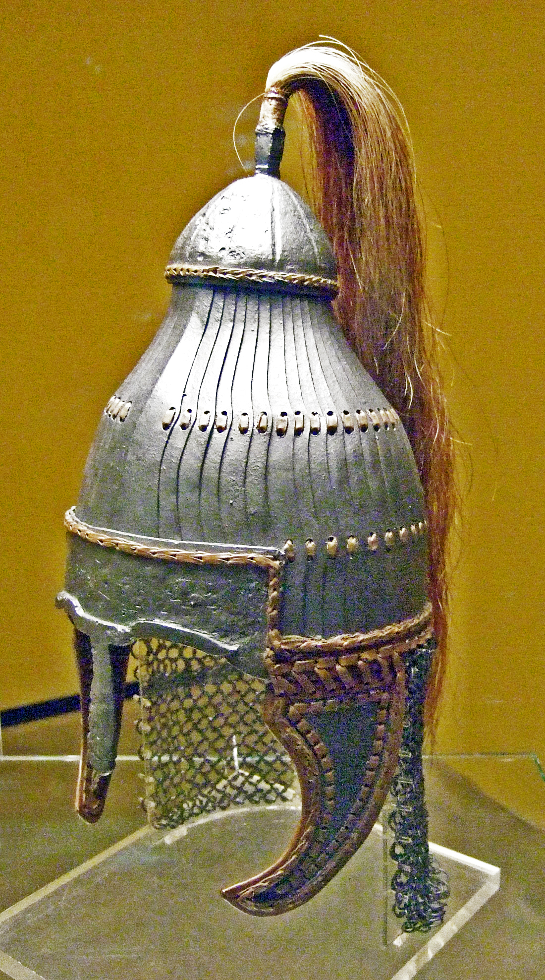 Lamellar helmet of the type Niederstotzingen, Grave 12 Niederstotzingen, District of Heidenheim, Baden-Württemberg, Germany The helmet was reconstructed of inexpertly dug fragments. The individual parts were wrought from high-quality iron and held together by leather thongs. On the interior side of the segments were leather remnants that served to cushion the helmet. Cloth remnants (probably silk) were detected on the exterior side of the segments. The topknot was equipped with a decorative sleeve that presumably held horse tail hair, not just as a crowning helmet ornament, but presumably also for recognition and as an insignia of rank. The lamellar helmet of Niederstotzingen is a type that derives from the Asian area, introduced to Europe by the Avars, among others. Comparable helmets have been found in Kerch, Castel Trosino, and Nocera Umbra as well as other sites. Photographed while on display from 22 August 2008 to 11 January 2009 in the exhibition "Die Langobarden. Das Ende der Völkerwanderung" at the Rheinisches LandesMuseum Bonn. The original is held at the Landesmuseum Württemberg, Stuttgart.